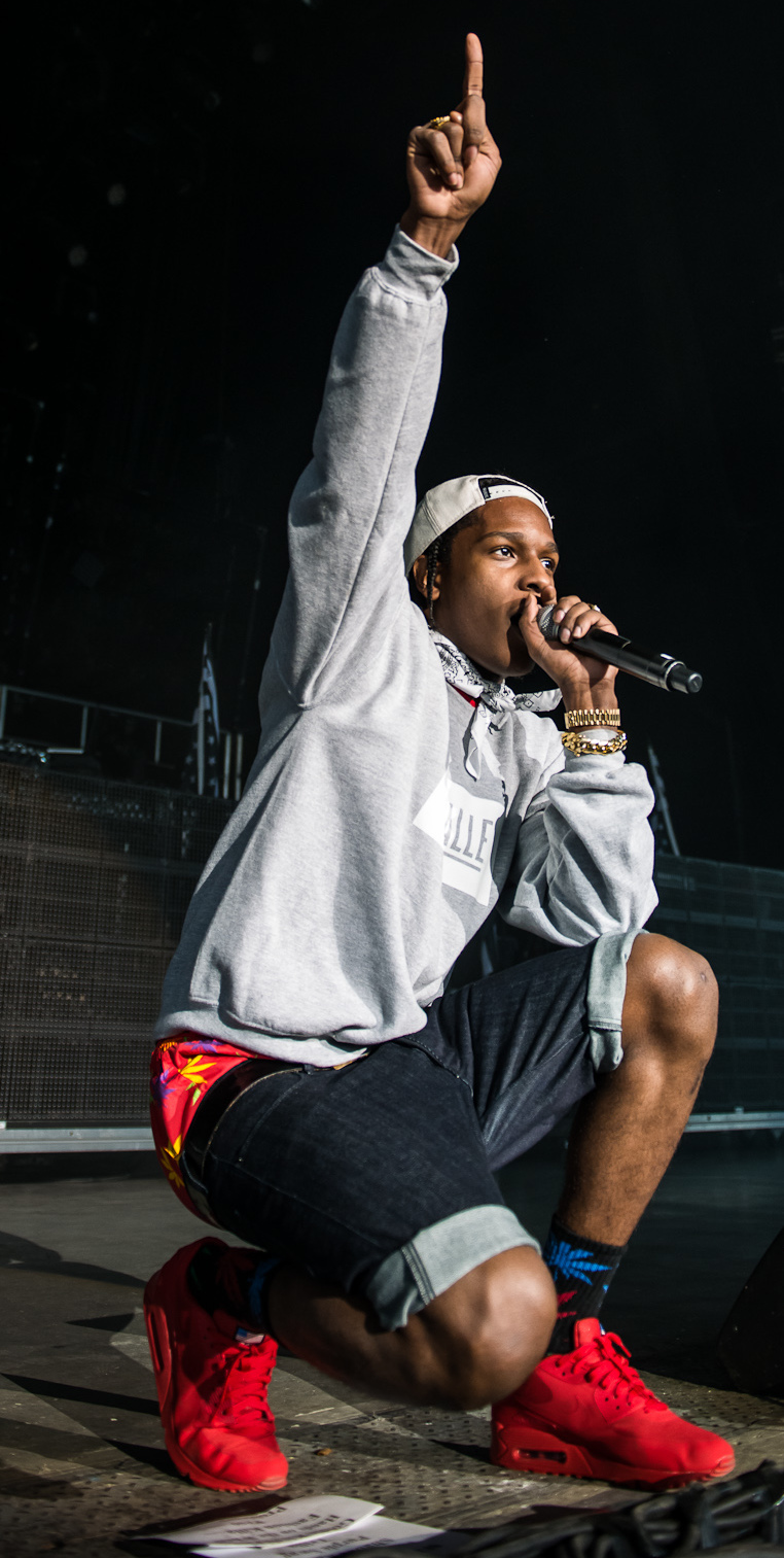 A$AP Rocky in 2013 August